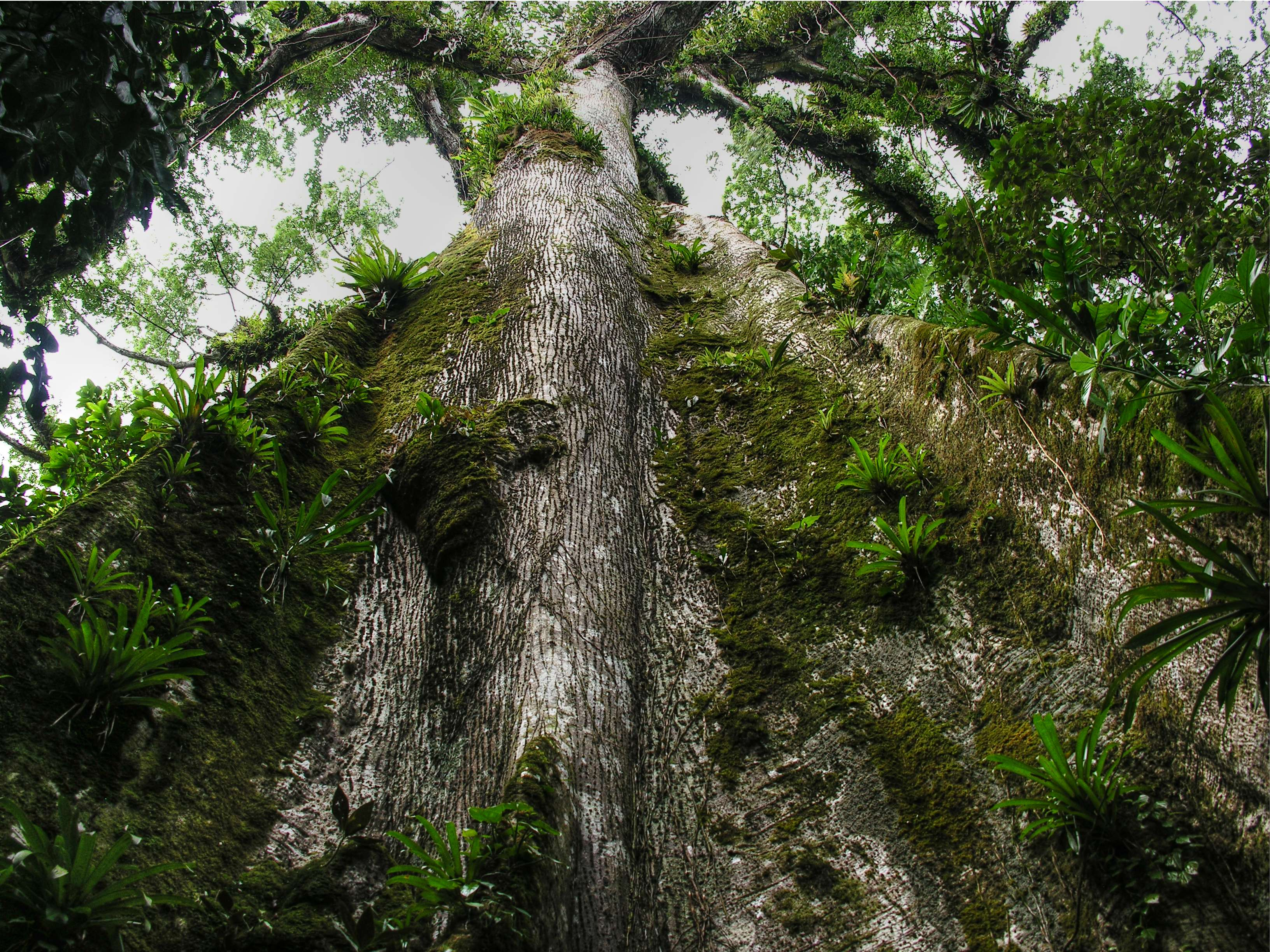 Rio celeste Costa Rica